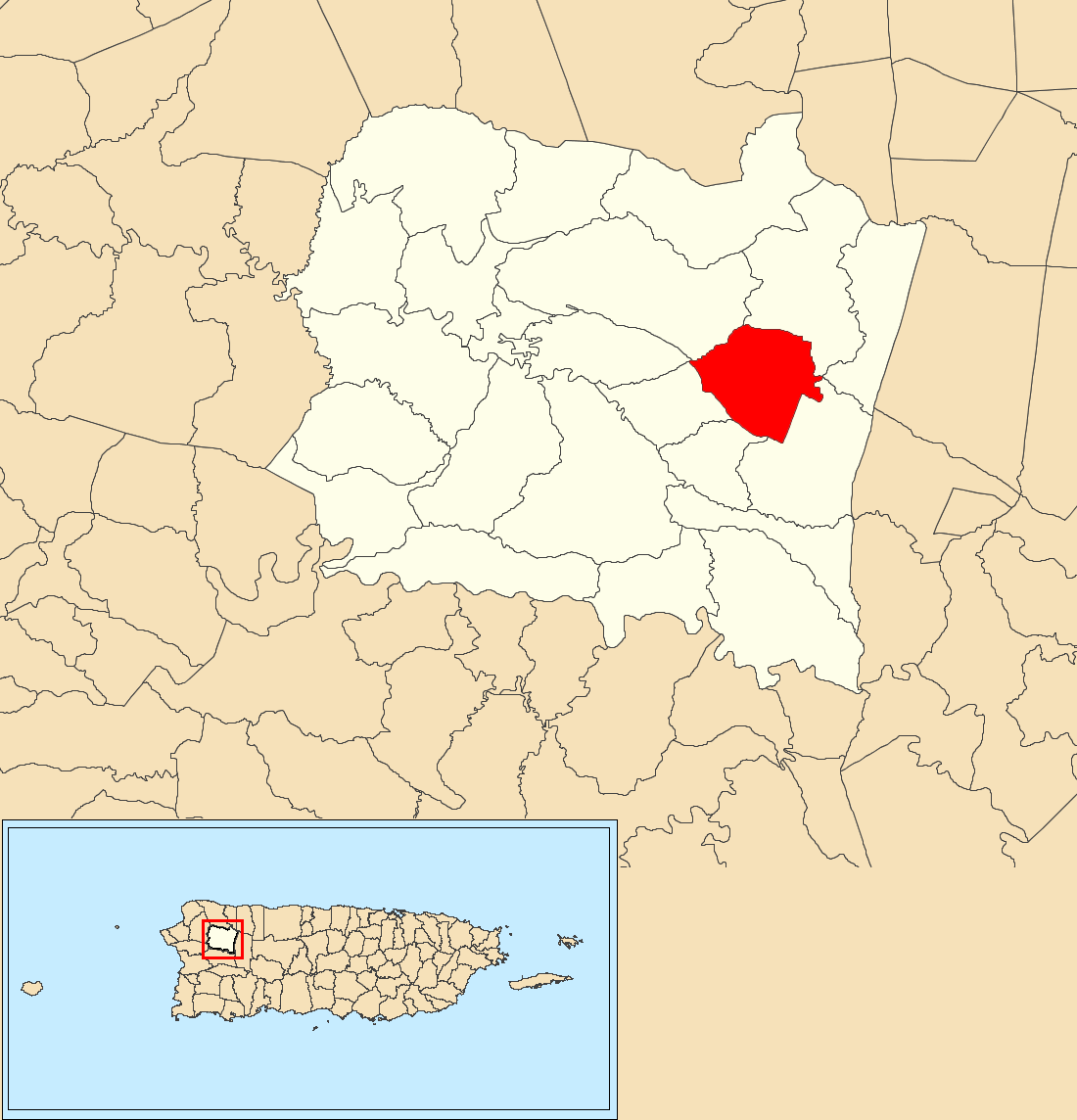 Eneas, San Sebastián, Puerto Rico locator map